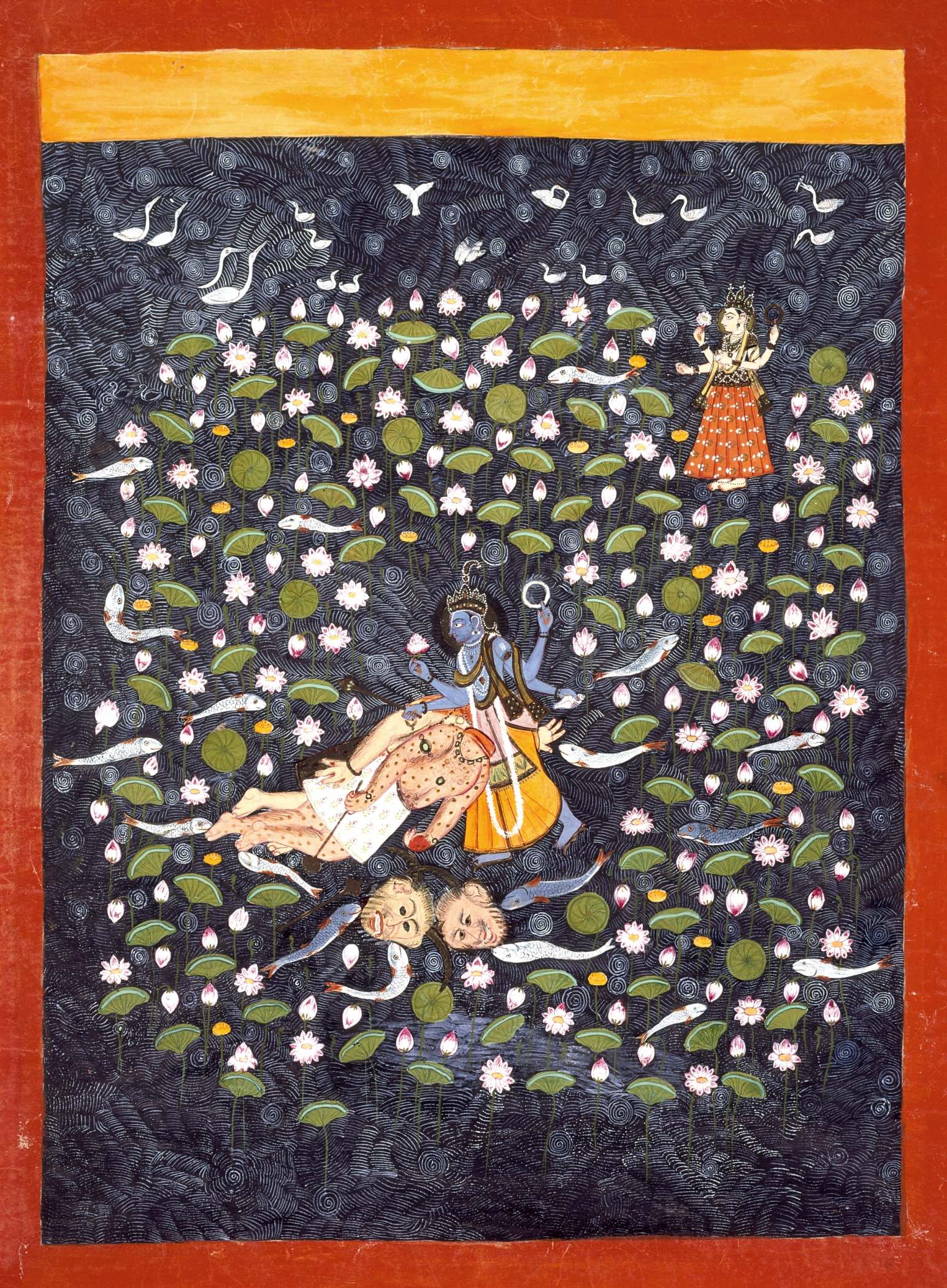 India, Madhya Pradesh, Chatarpur, circa 1775 Drawings; watercolors Opaque watercolor and gold on paper Gift of Paul F. Walter (M.84.229.5) South and Southeast Asian Art